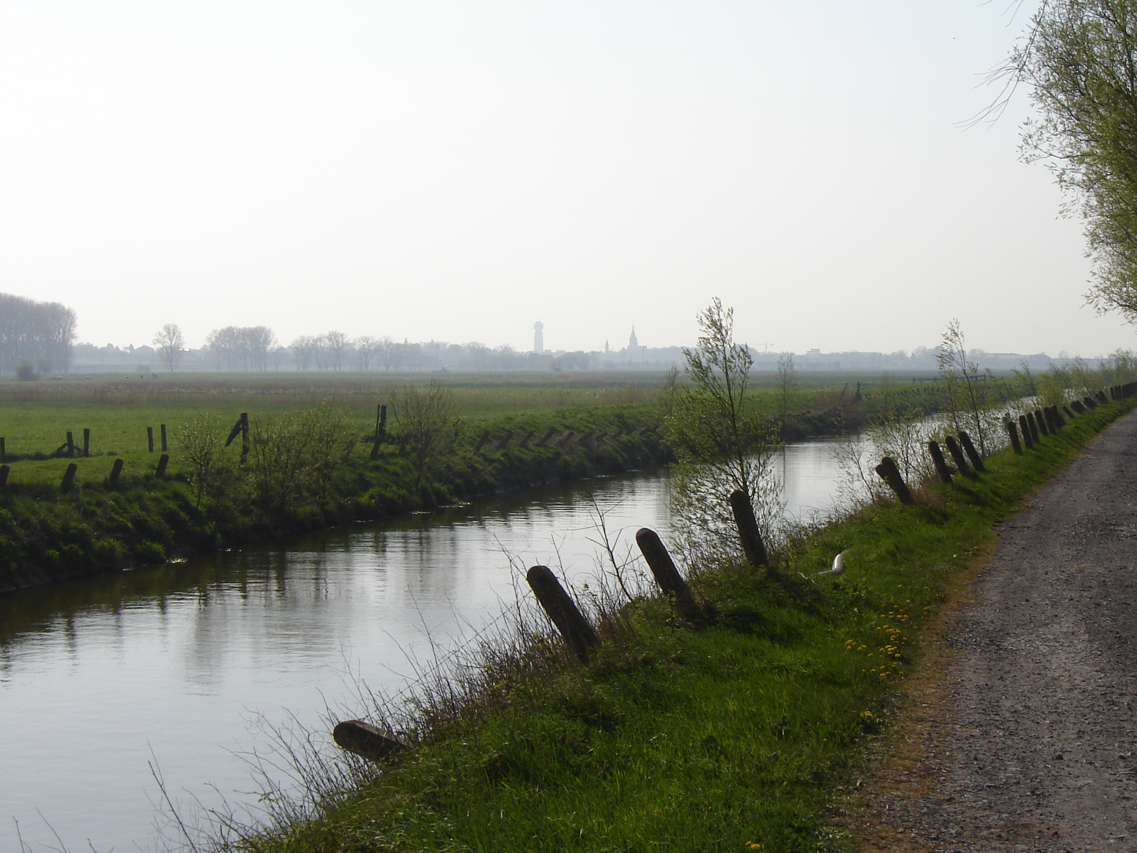 Handzamevaart river with city of Diksmuide at the horizon. Taken on the territory of Vladslo; the river is the border between Vladslo and Esen at this place. Vladslo, Diksmuide, West-Flanders, Belgium.